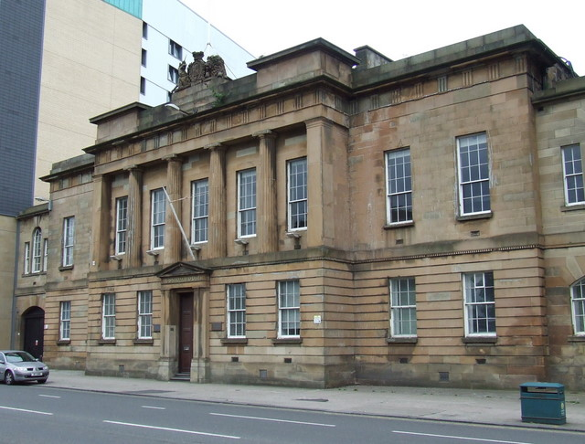 Custom House On Clyde Street.